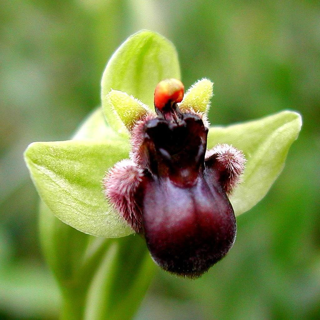 Ophrys bombyliflora - single flower